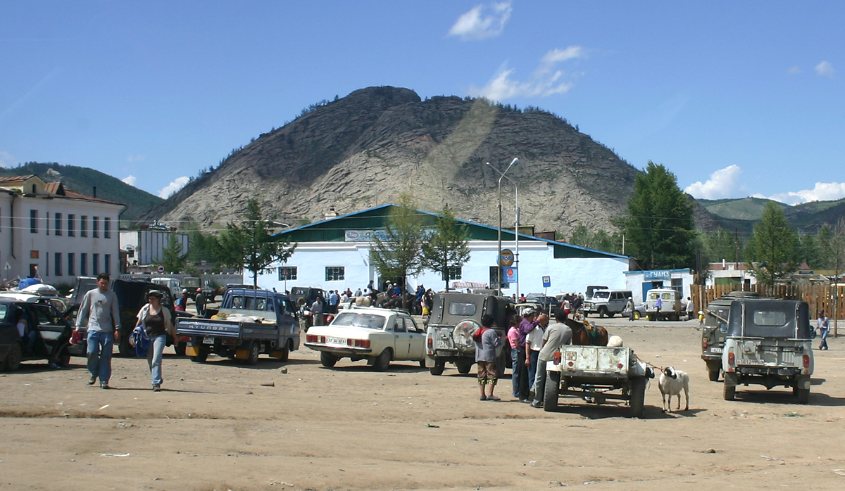 Tsetserleg Market, Author: m.a.billings